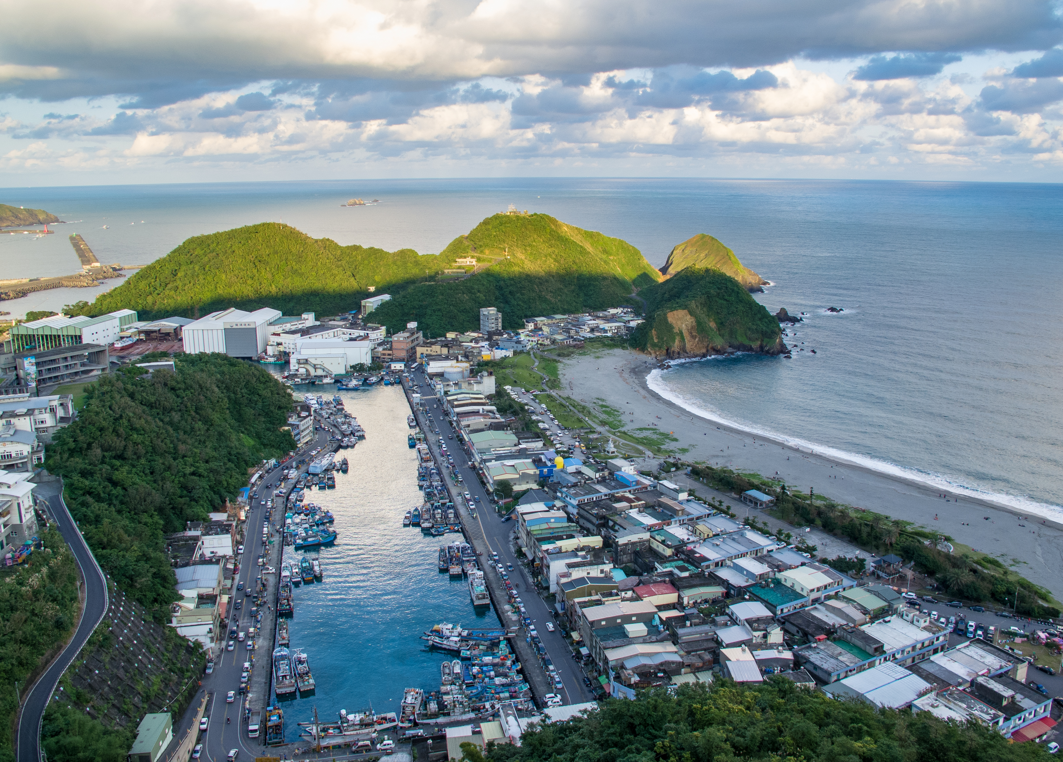 Shadow of mountain over the fishing port of Neipi.